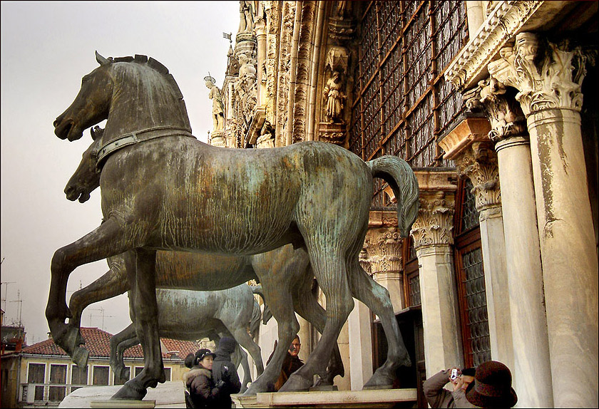 Basilica di San Marco, Venice, showing the horses on the façade In 1870s. Today.